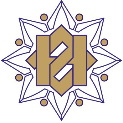 logo of Haydar Aliyev foundation